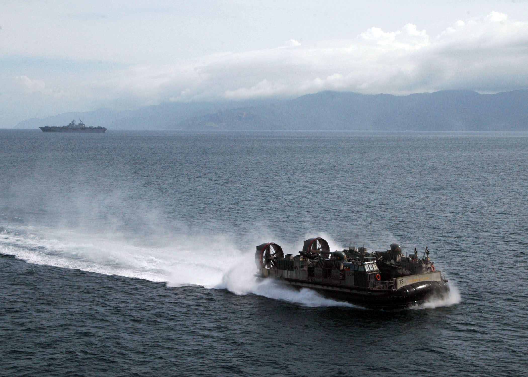 Leyte Gulf, Republic of the Philippines (Feb. 21, 2006) - A Landing Craft Air Cushioned (LCAC) assigned to Assault Craft Unit Five (ACU-5) embarked aboard the amphibious assault ship USS Essex (LHD 2) heads to the island of Leyte. Essex is conducting operations in support of humanitarian assistance and disaster relief efforts on the island of Leyte, following the Feb. 17 landslide that devastated the town of Guinsahugon located in the southern part of the island. Essex along with the dock landing ship USS Harpers Ferry (LSD 49) are part of the Forward Deployed Amphibious Ready Group, the Navy's only forward-deployed amphibious force, homeported in Sasebo, Japan. U.S. Navy photo by Photographer's Mate 1st Class Michael D. Kennedy (RELEASED)